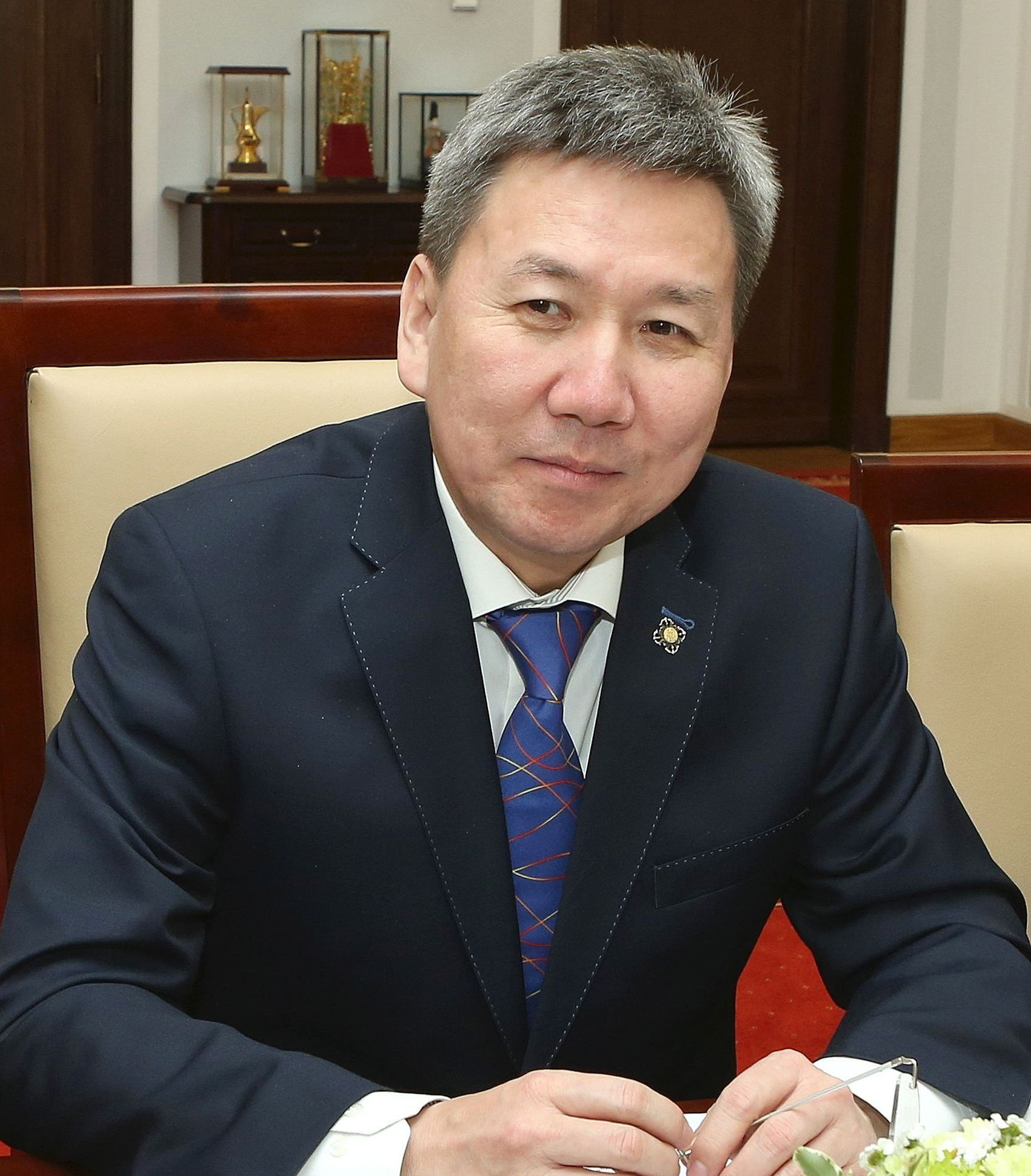 Minister for Foreign Affairs of Mongolia Luvsanvandan Bold in the Polish Senate